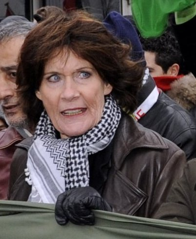 Gretta Duisenberg during GAZA protest in Amsterdam